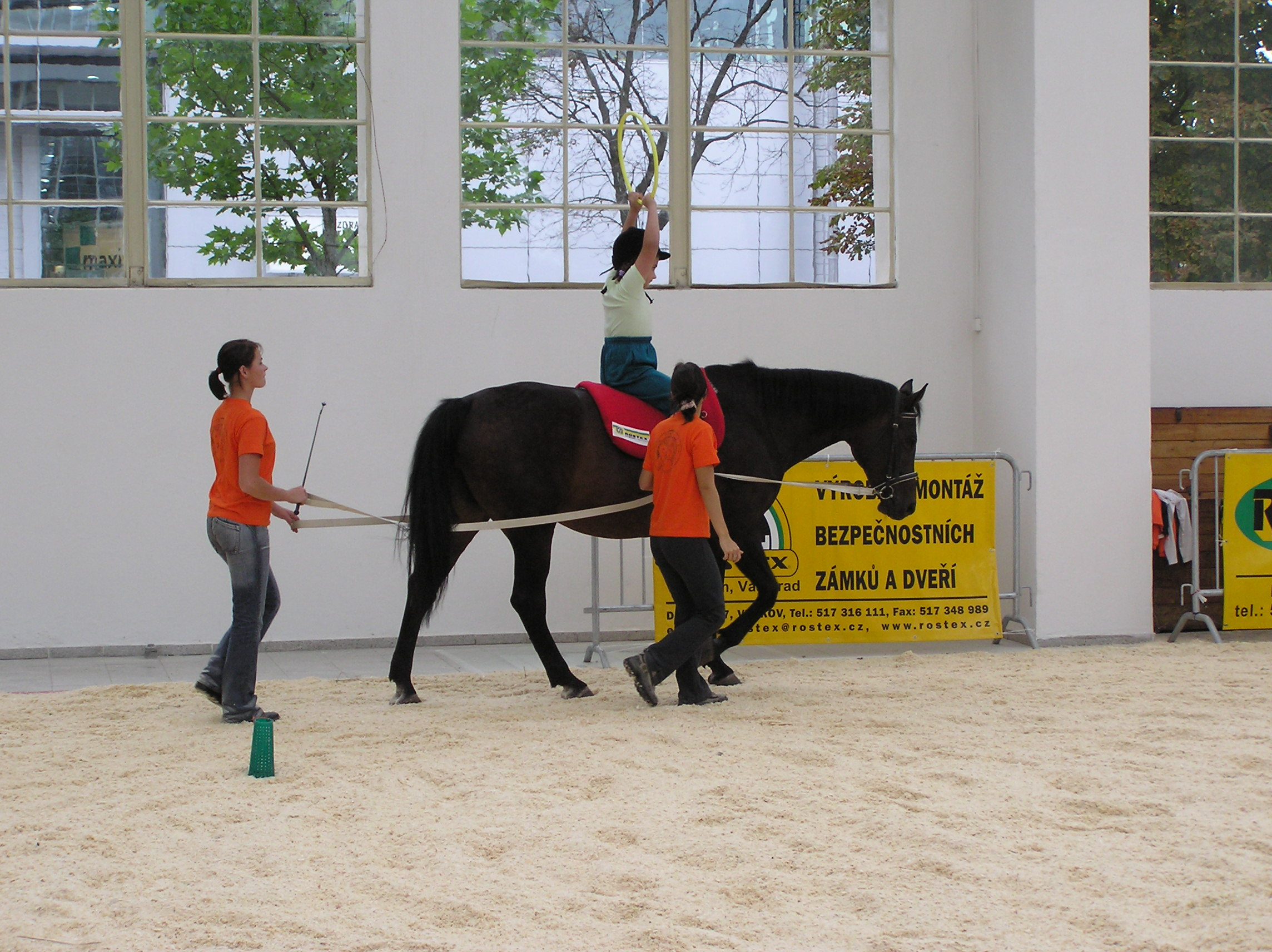 Therapeutic horse riding on the Medical fair Brno.